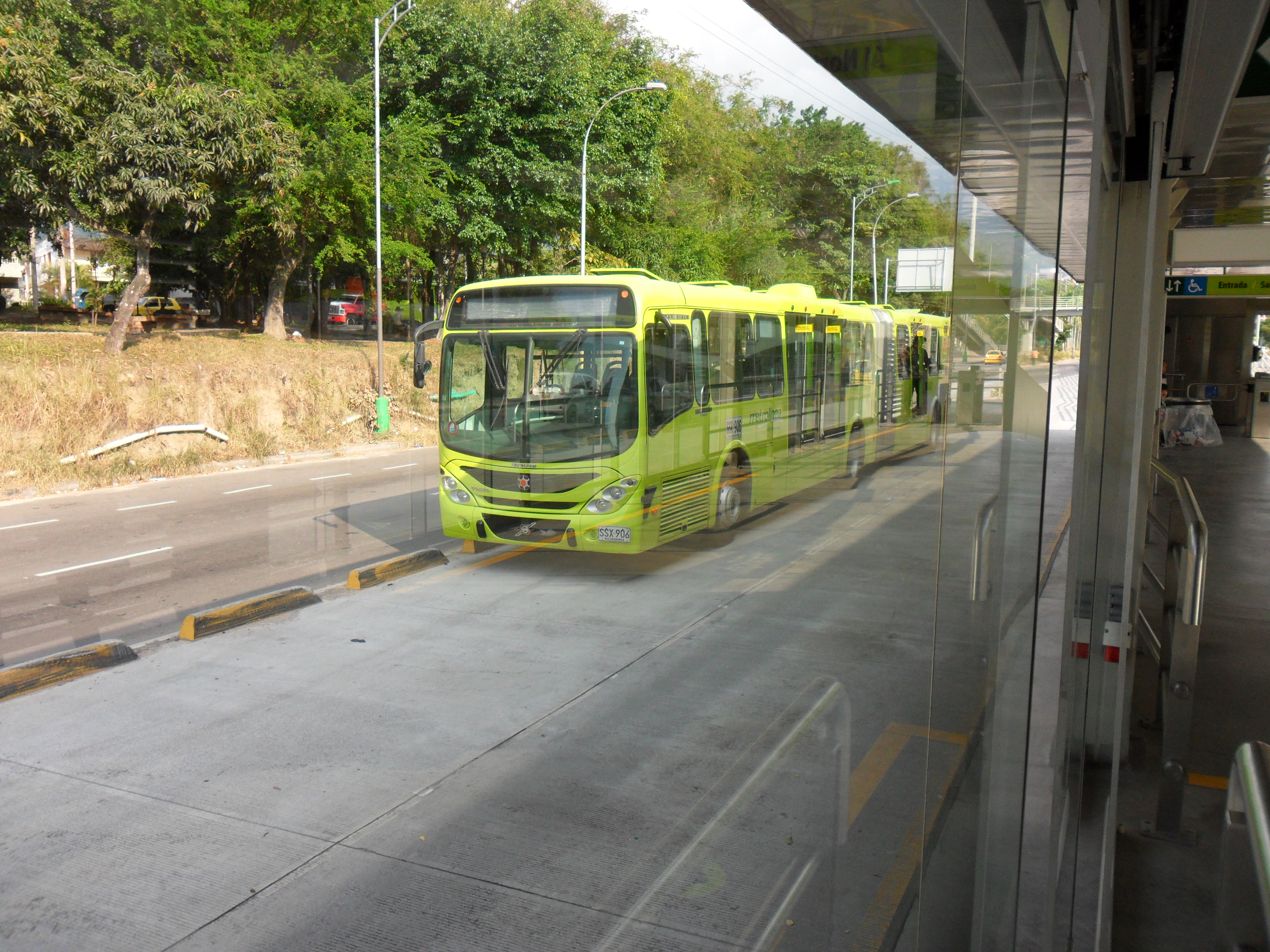 Lagos Station - Metrolinea